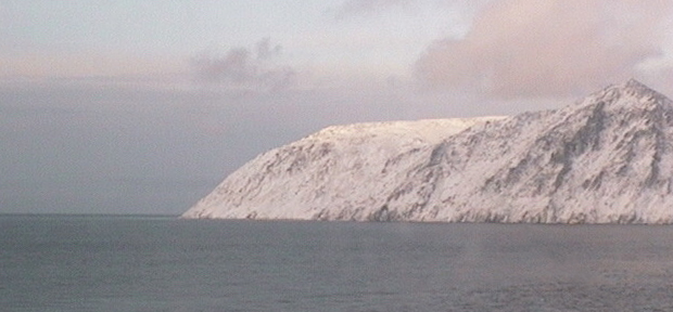 Cropped version of File:Big Diomede.jpg . View of Big Diomede (Russia) from Little Diomede (Alaska, USA) taken through a webcam on the island.